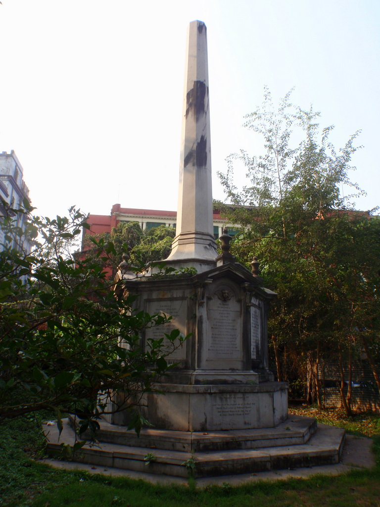 General view of Black Hole of Calcutta Memorial St John's Church Calcutta